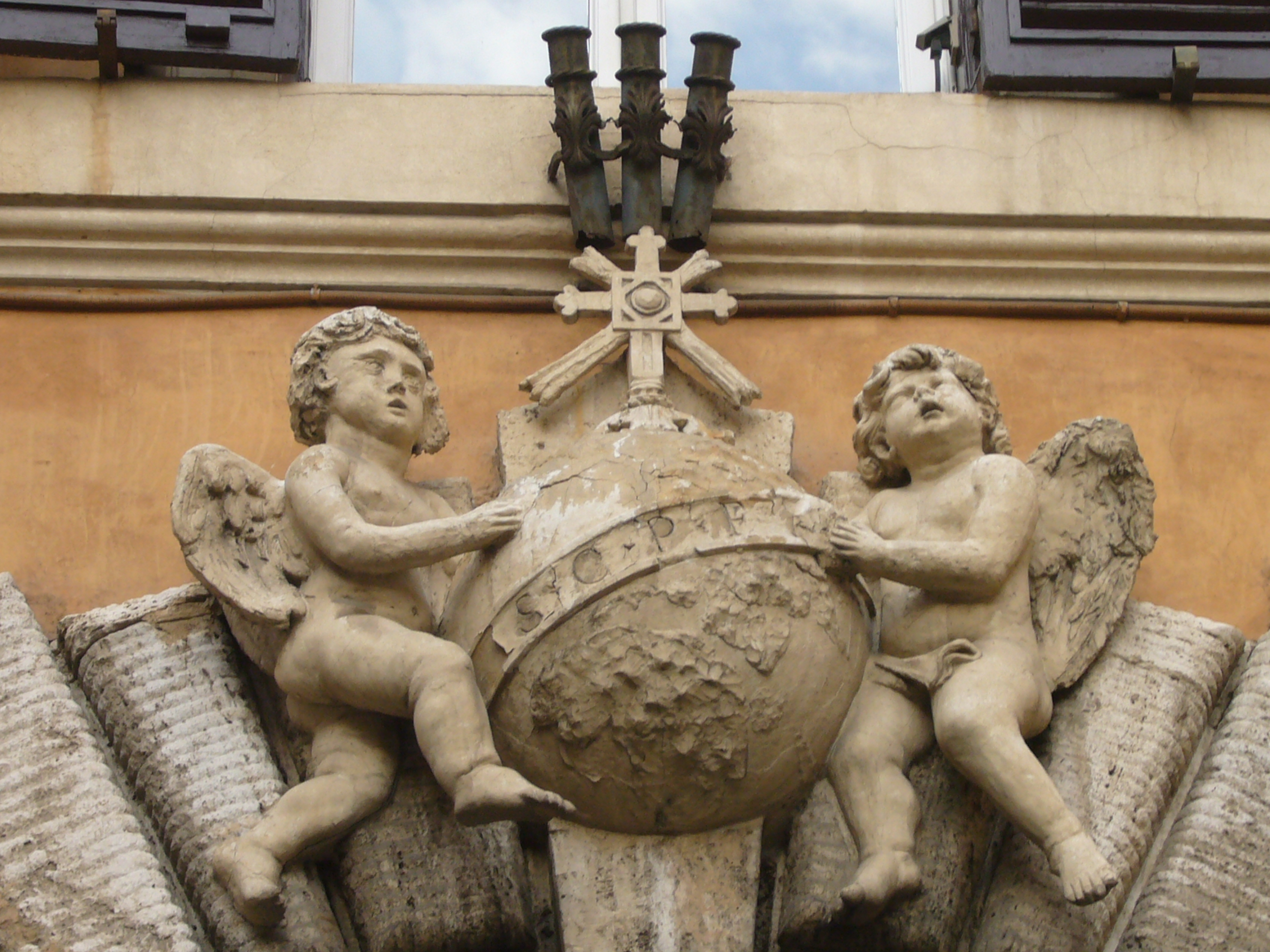 Roma, palazzo Mignanelli Gabrielli: stemma di Propaganda Fide, proprietaria dell'edificio (1887)